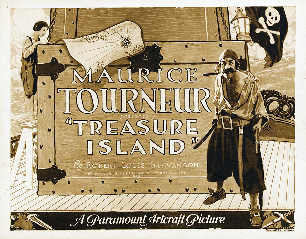 Lobby card from the 1920 film Treasure Island.